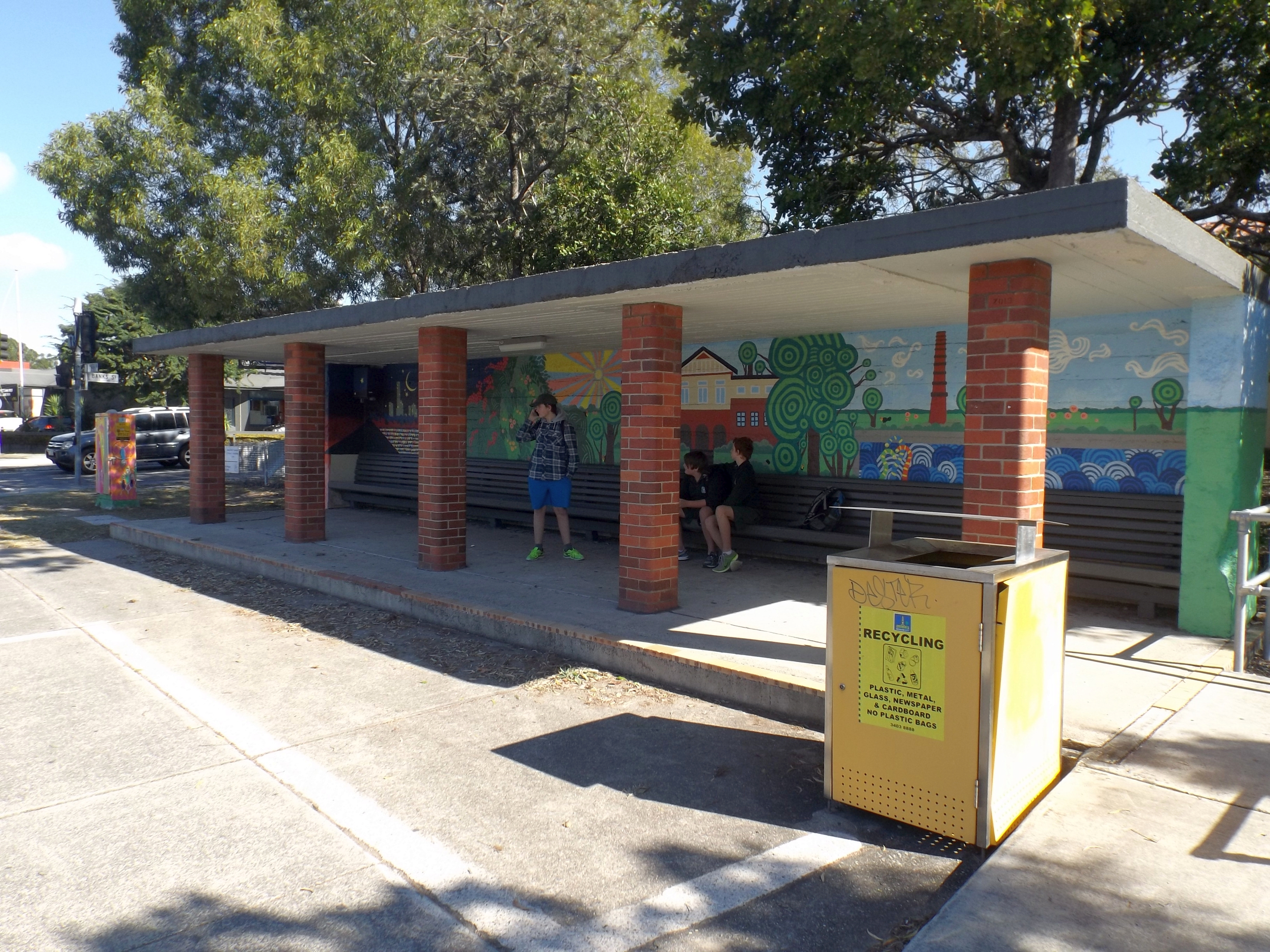 Photo of Newmarket Air Raid Shelter at Alderley, Brisbane, Queensland, Australia. Shelter is used as a bus transport seat and shelter.